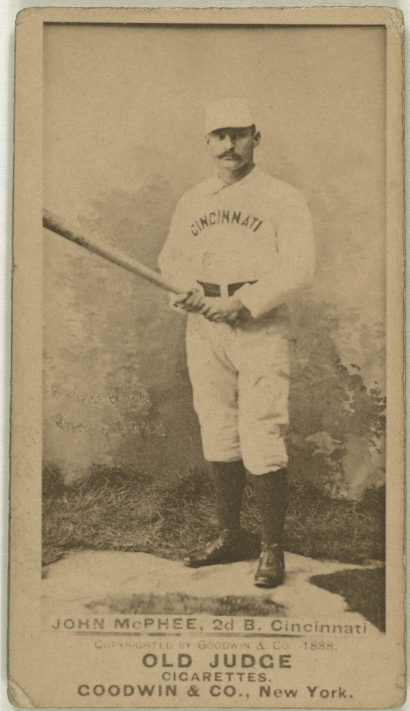 Title: Bid McPhee, Cincinnati Red Stockings, baseball card portrait Abstract/medium: 1 photographic print : albumen.